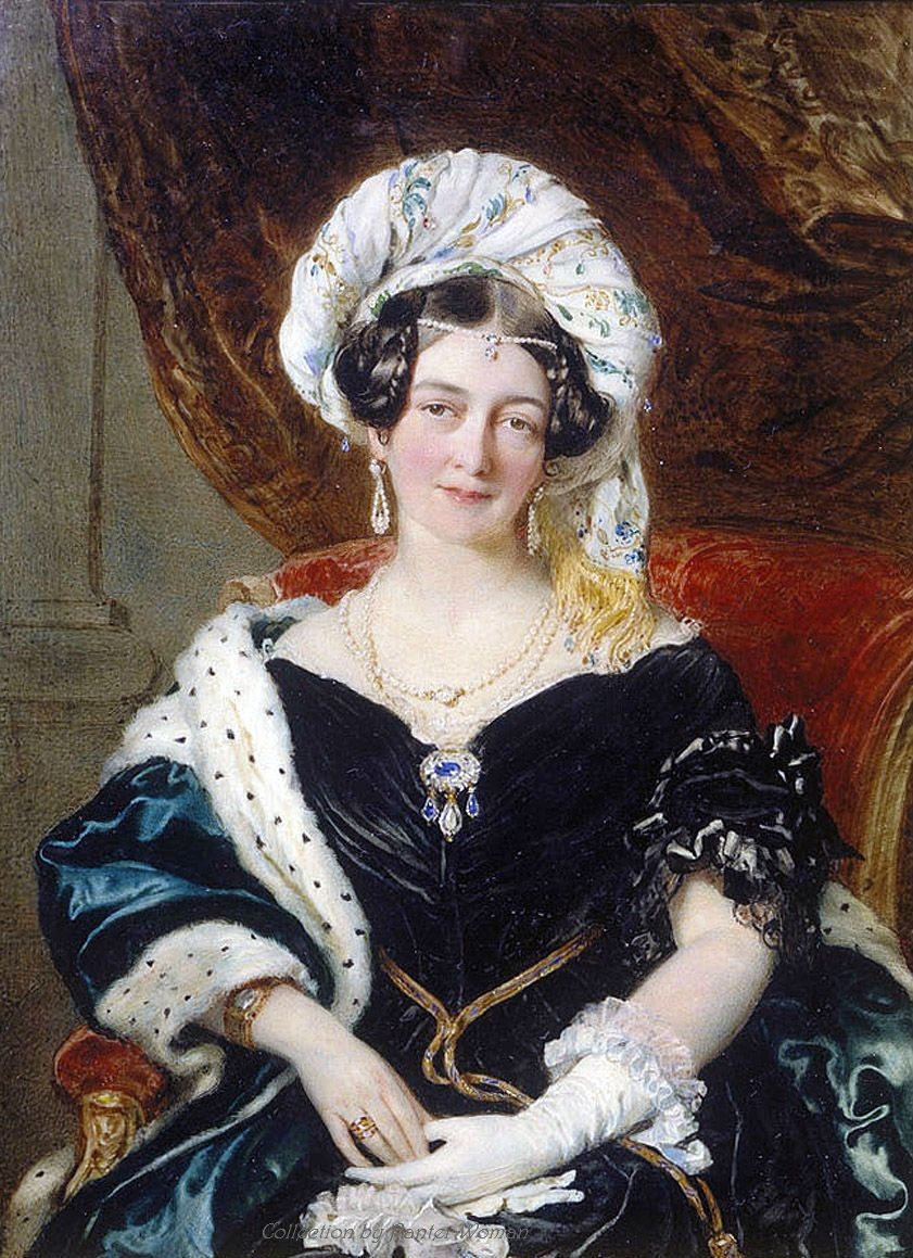 Victoria, Duchess of Kent (1788-1861),мать Королевы Виктории